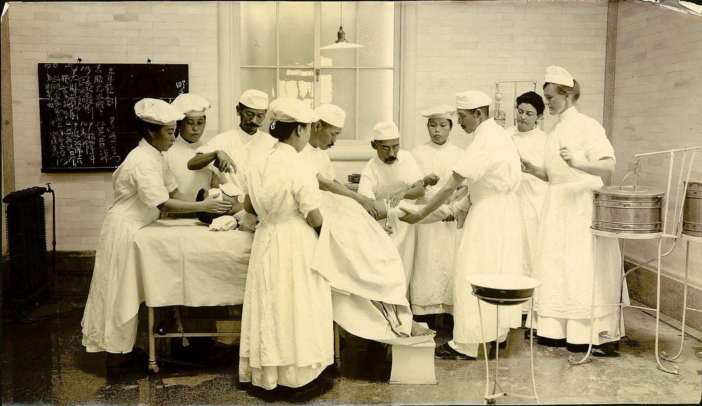 Dr. Anita McGee and an American nurse observe an operation in Hiroshima General Hospital during the Russo-Japanese War.